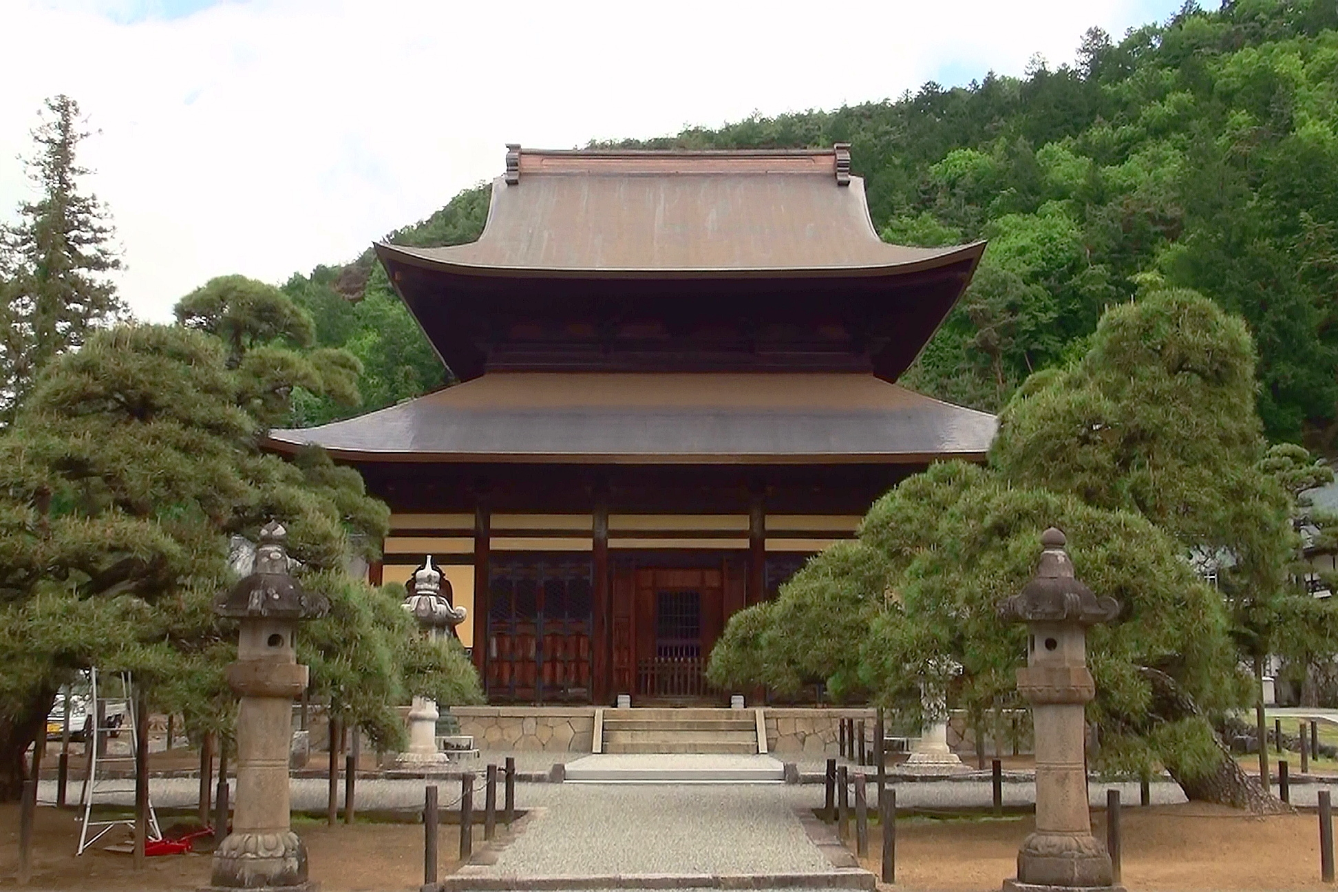 Kogakuji temple Koshu-city